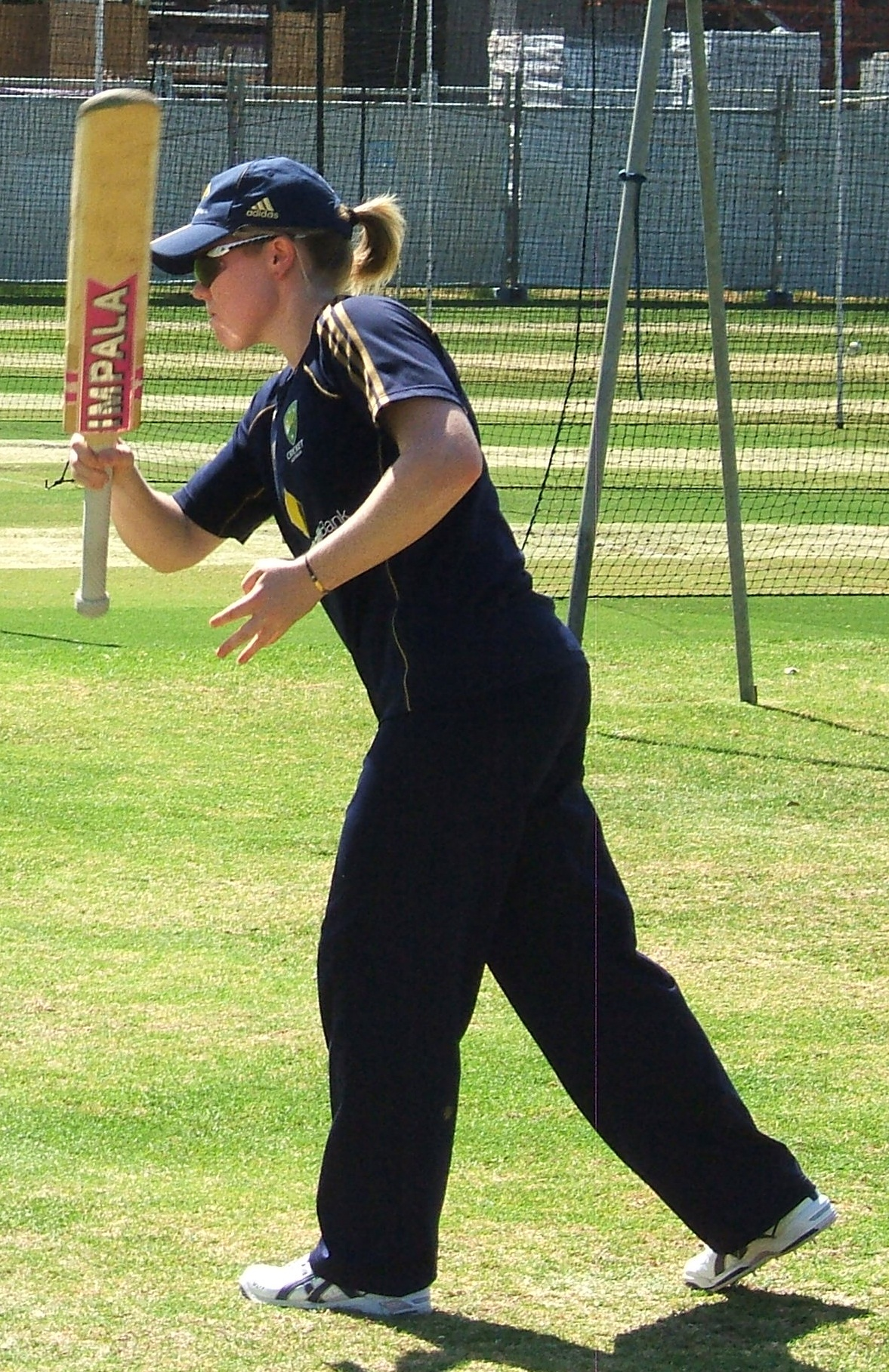 Named person engaging in named action at Adelaide Oval nets/training ground